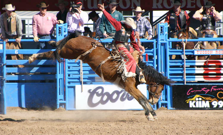 Bronco rider at the Tucson, AZ "Fiesta de los Vaqueros", Feb. 2006. Photo by Joekoz451 02:54, 27 August 2006 (UTC)